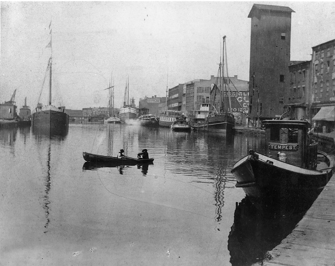 A view of the Cuyahoga River, looking north from the riverbank at Superior Ave.